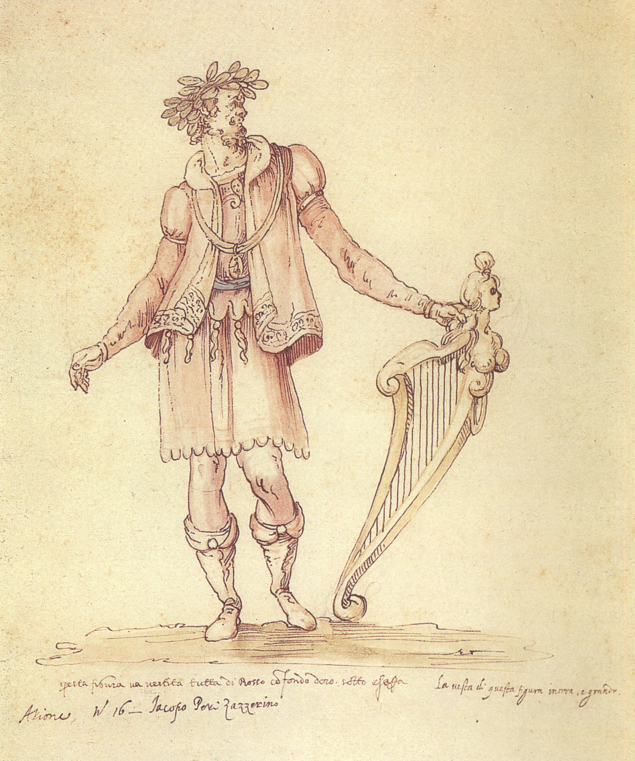 Composer Jacopo Peri in his performance costume of Arion in the 5. intermedio of La Pellegrina (1589).